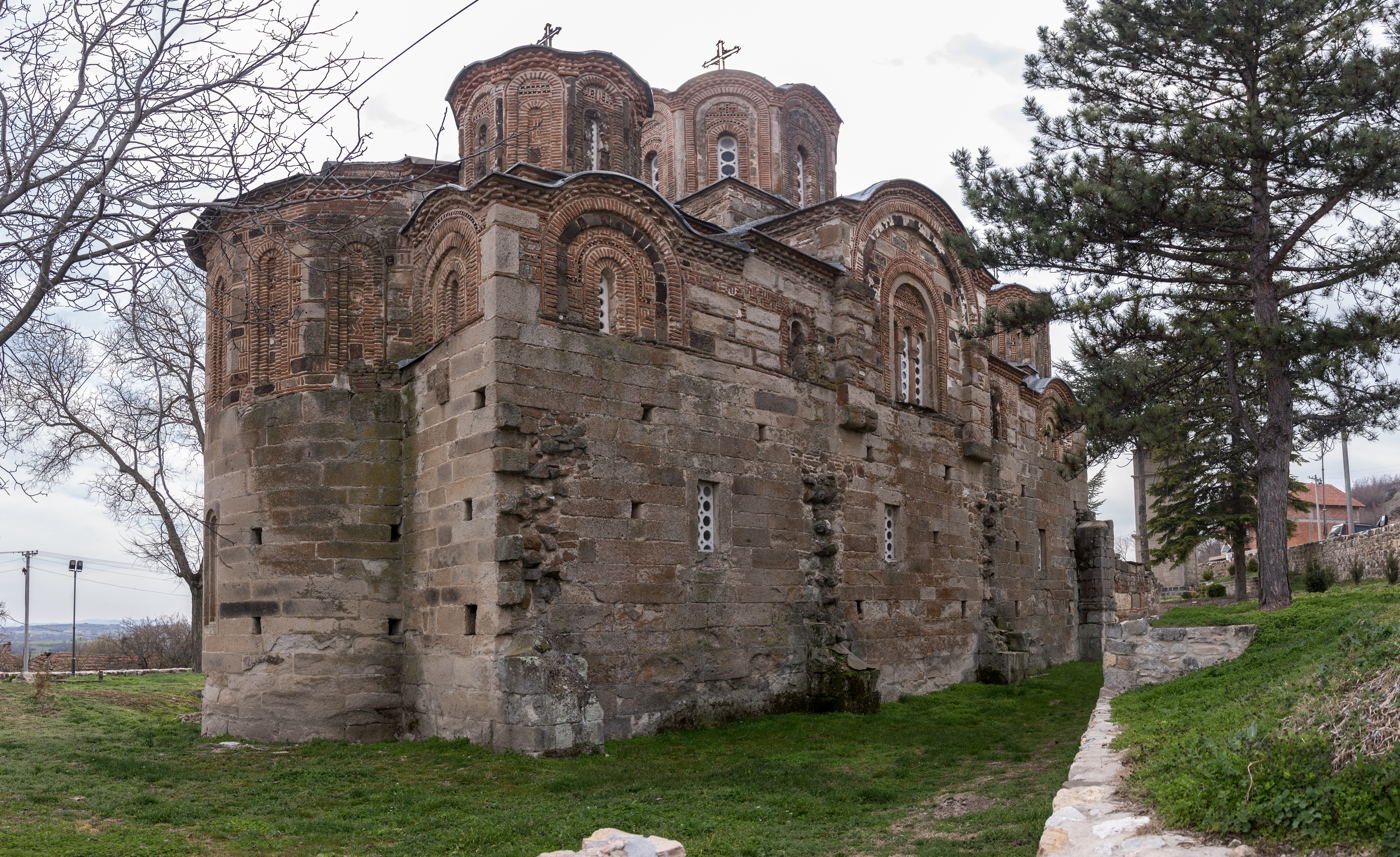 St. George's Church (Staro Nagoričane)